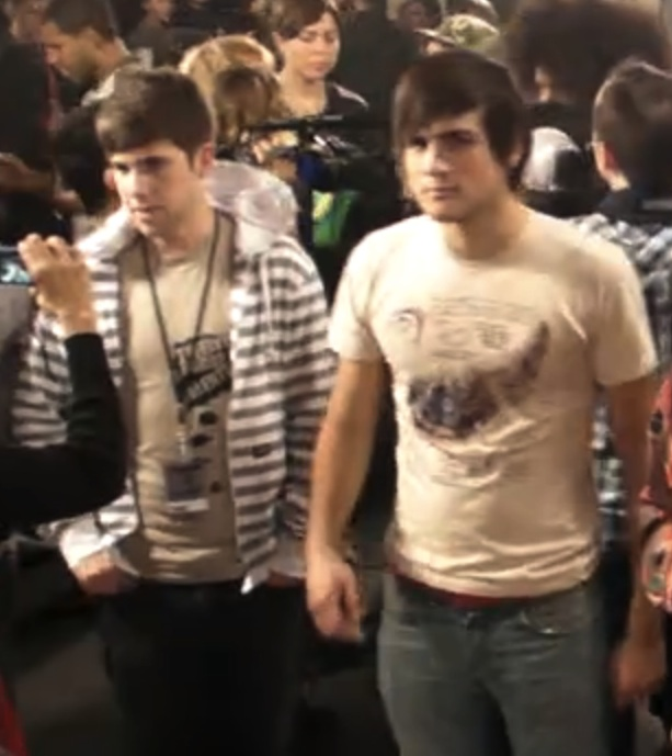 Smosh at YouTube Live